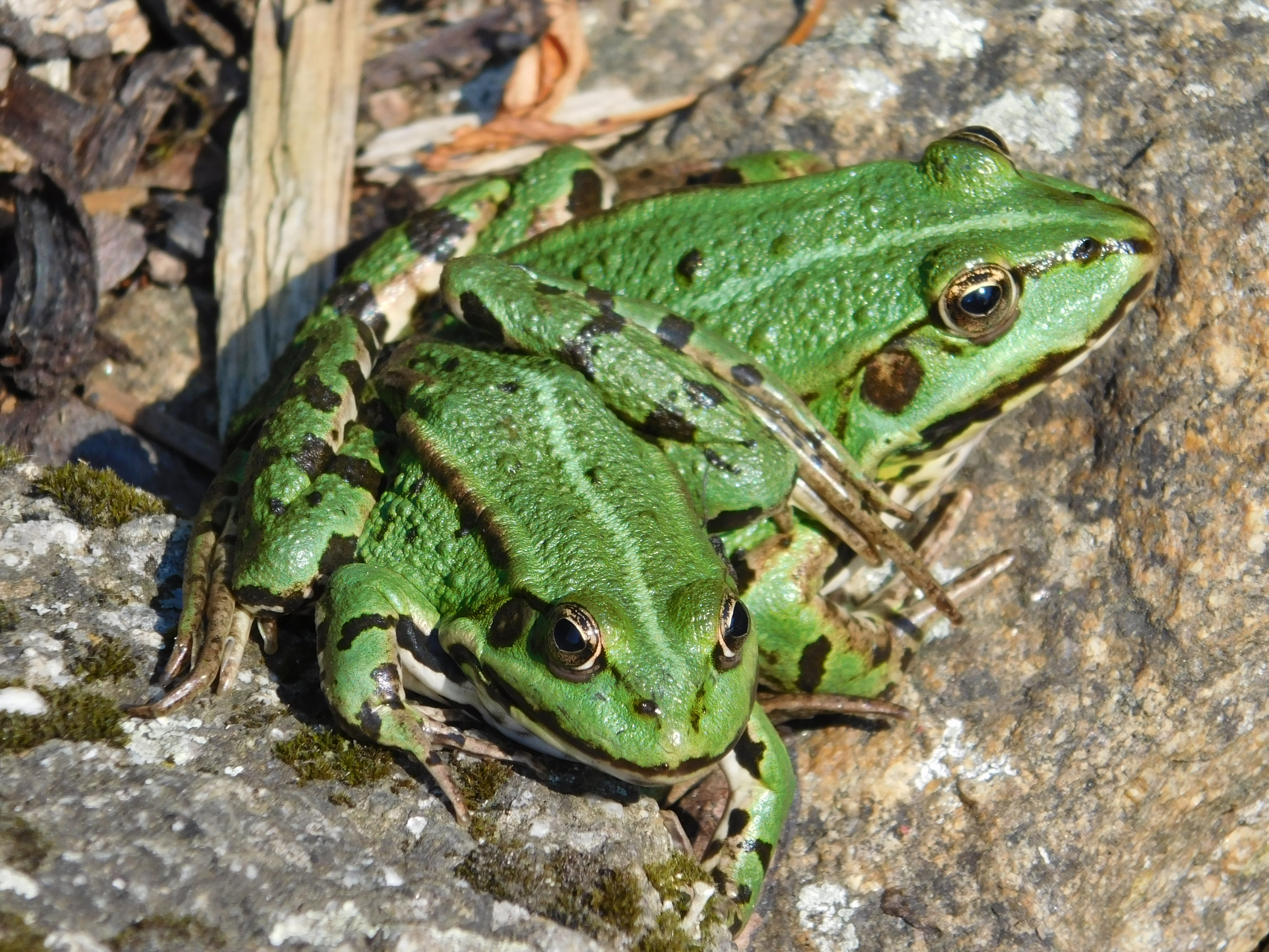 Edible frogs (Pelophylax esculentus) on a rock